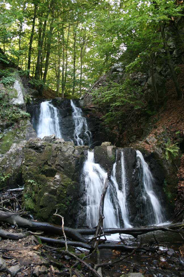 Forsakar Waterfall